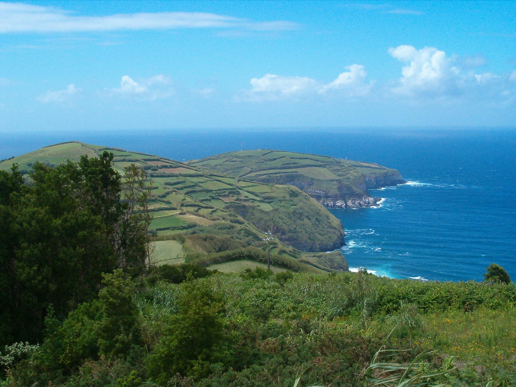 Panoramic View in São Miguel island